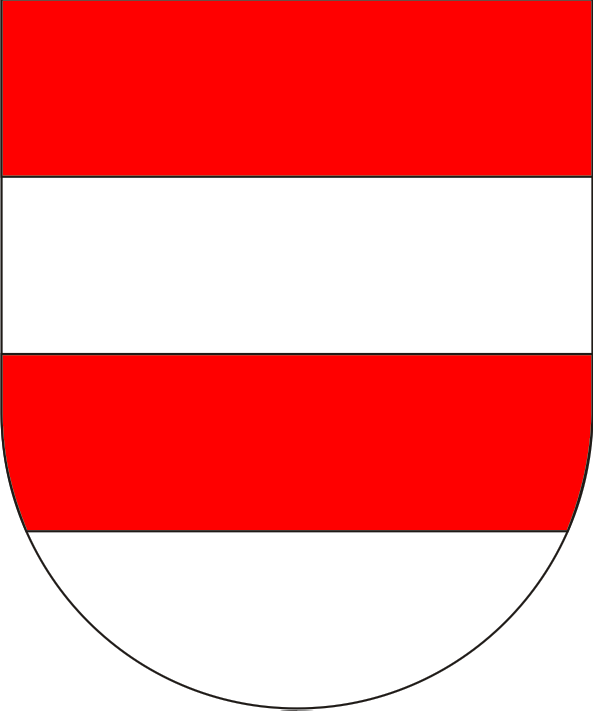 coats of arms of the lordship of Neu-Bruchhausen